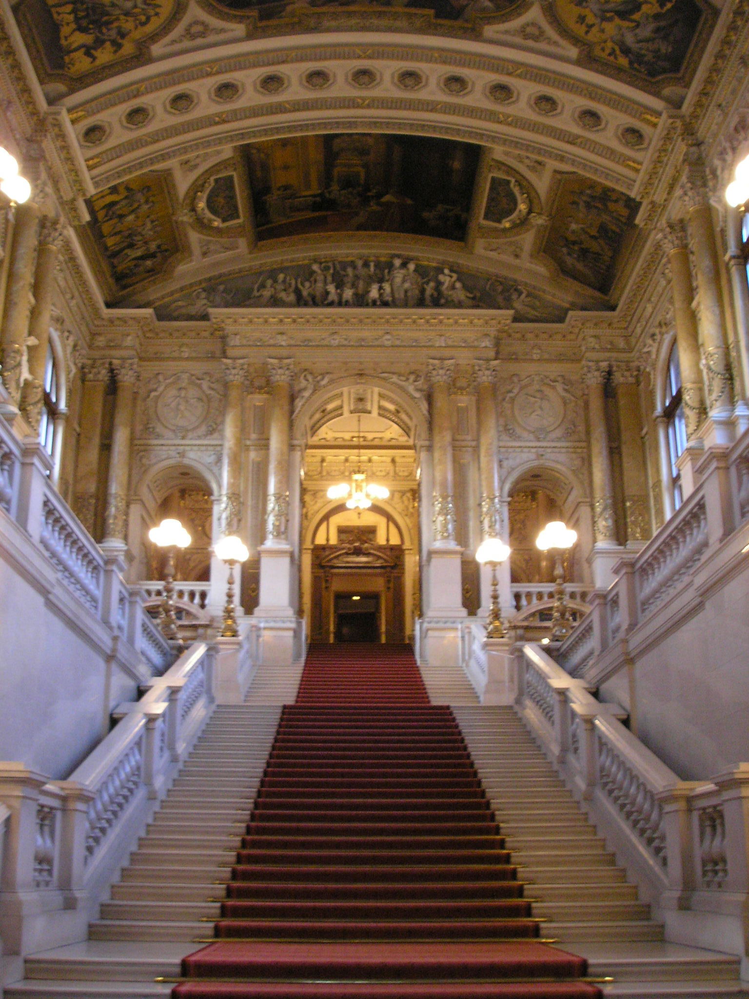 Austria, Vienna, Burgtheater